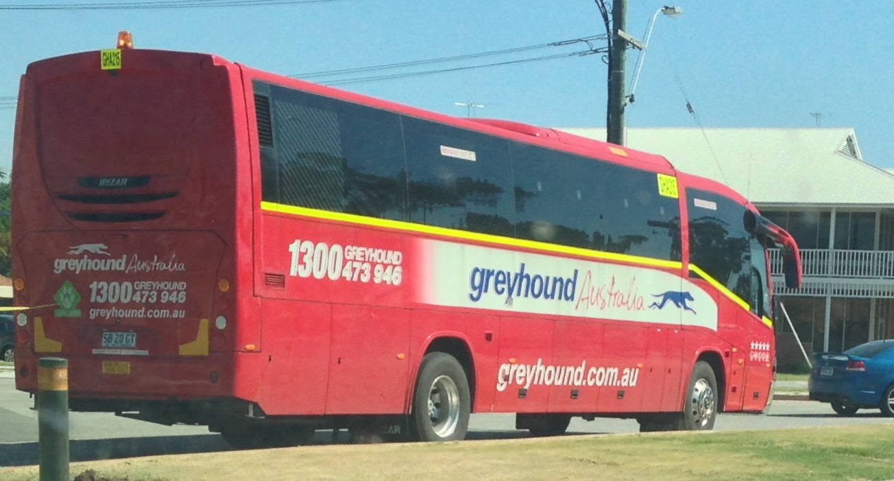 Greyound bus in Perth, Western Australia in 2013